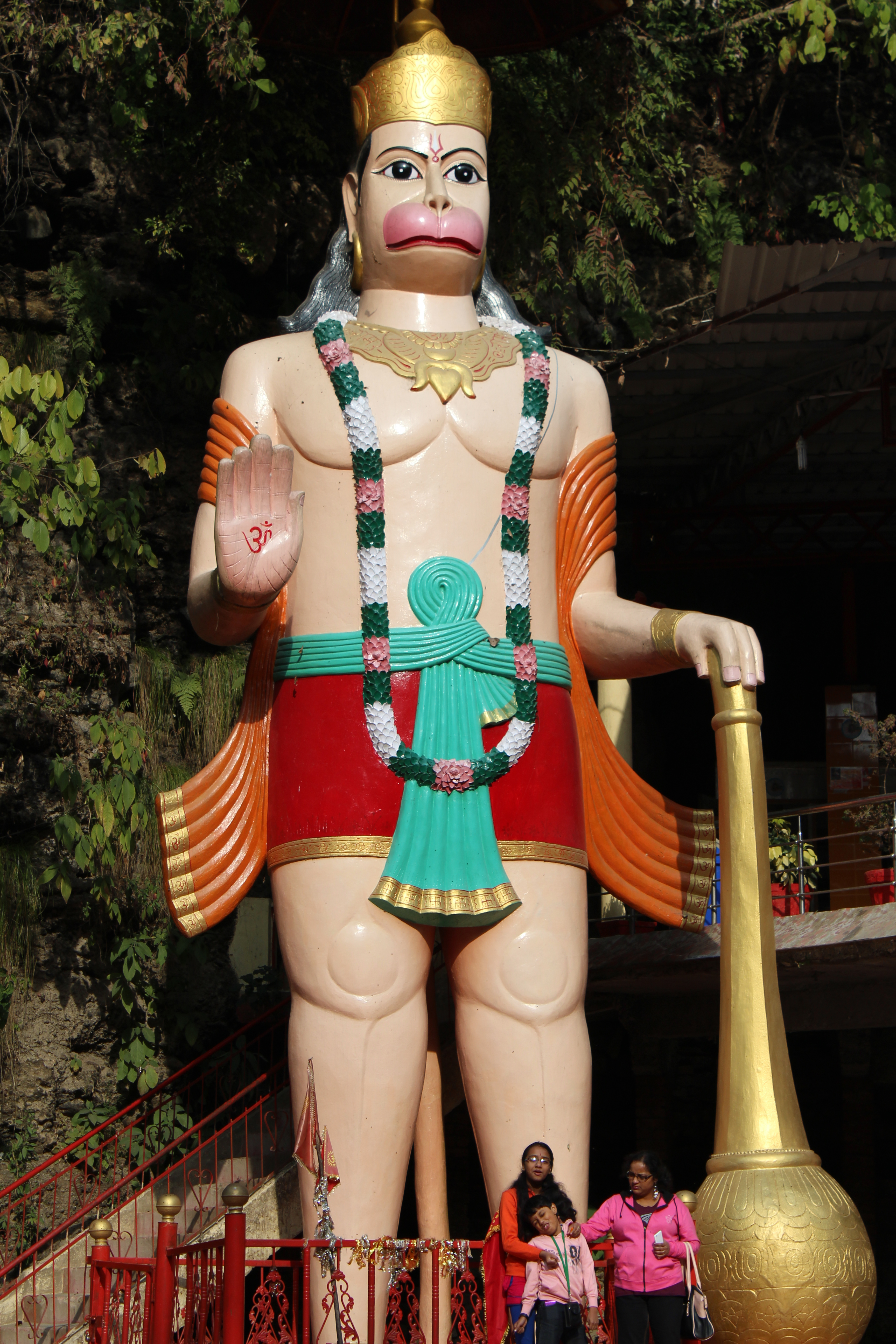 The Tapkeshwar Mahadev temple is an age-old temple and has a rustic charm to it. The river adds to the beauty of the temple. This pretty cave temple located in the cantonment area of Garhi in the heart of the city is a very sacred and revered temple, which attracts thousands of tourists and devotees. Picture taken by Rajatkanti Bera.